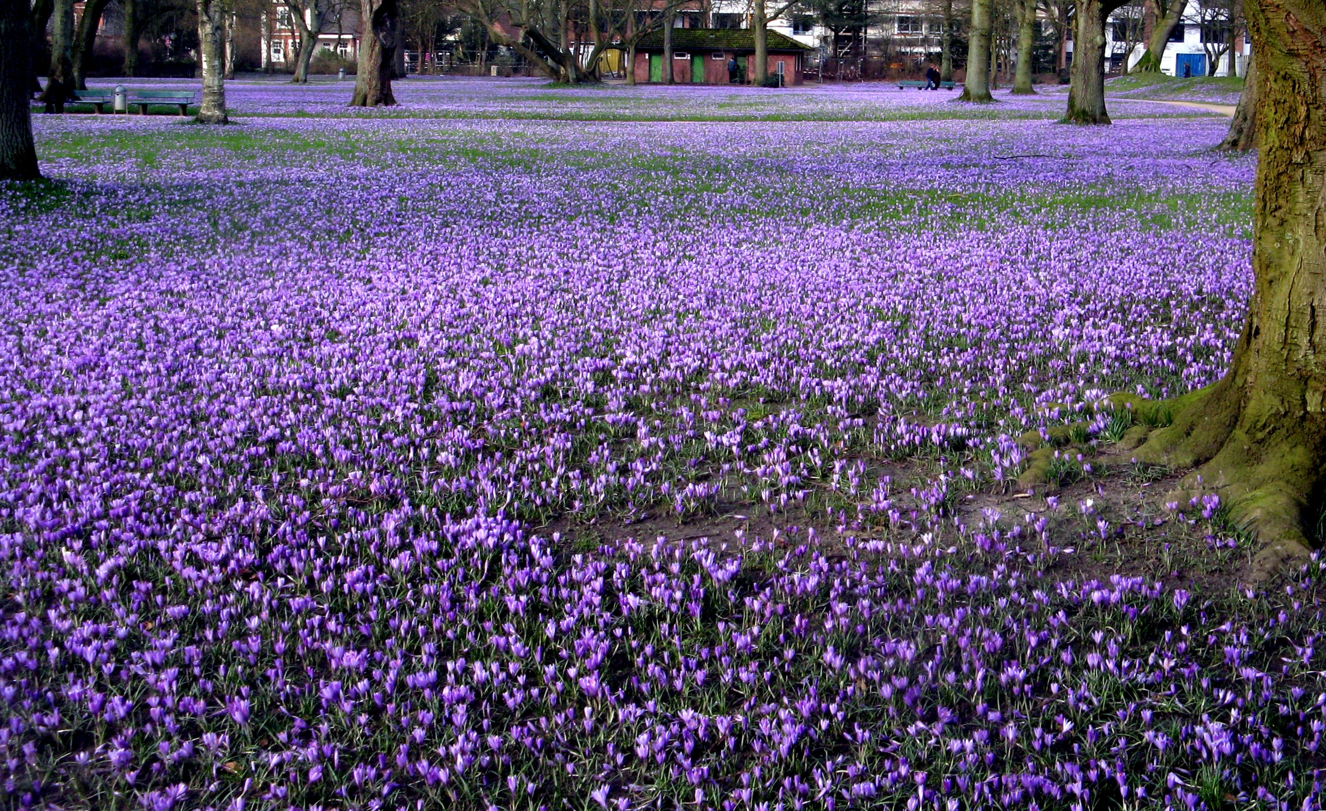 Husum crocus flower, part of the park. The crocus themselves are wild and old, maybe from the 16th or 17th century. And it is not sure who brought them, but almost that their purpose was to produce safron. But alas, to produce safron you need Crocus sativus, not the Crocus napolitanus used in Husum.